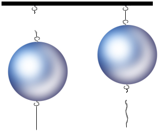 My own work (Gorbik Dmitry)